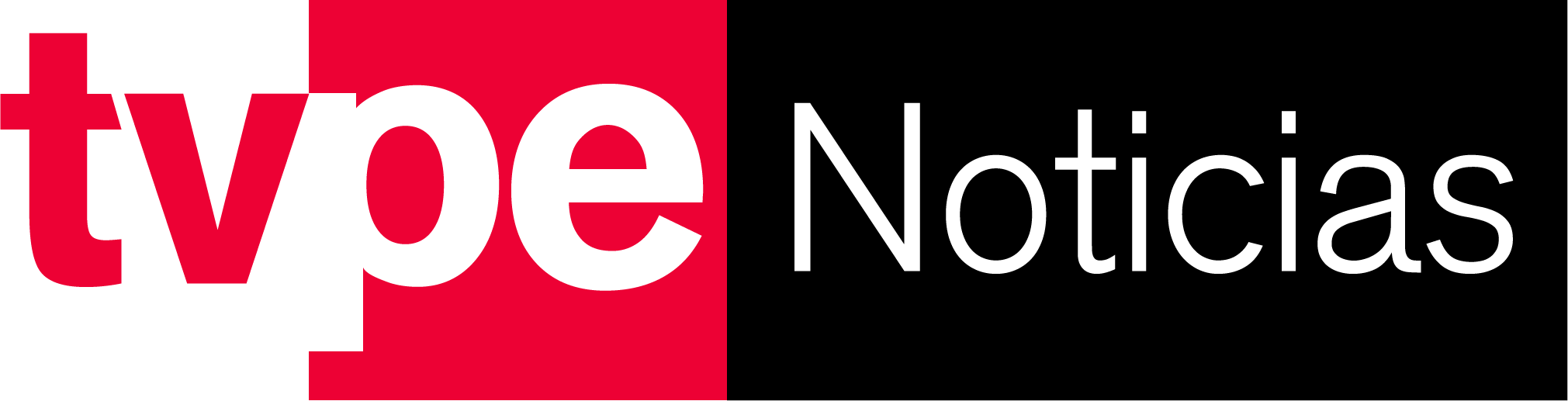 Logo of Peruvian state-owned TV network, TV Perú Noticias